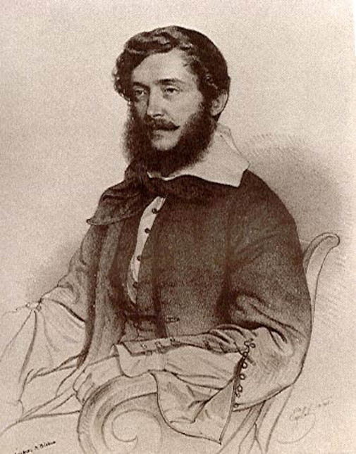 Portrait of Lajos Kossuth (1841) Lajos Kossuth (1802-1894)